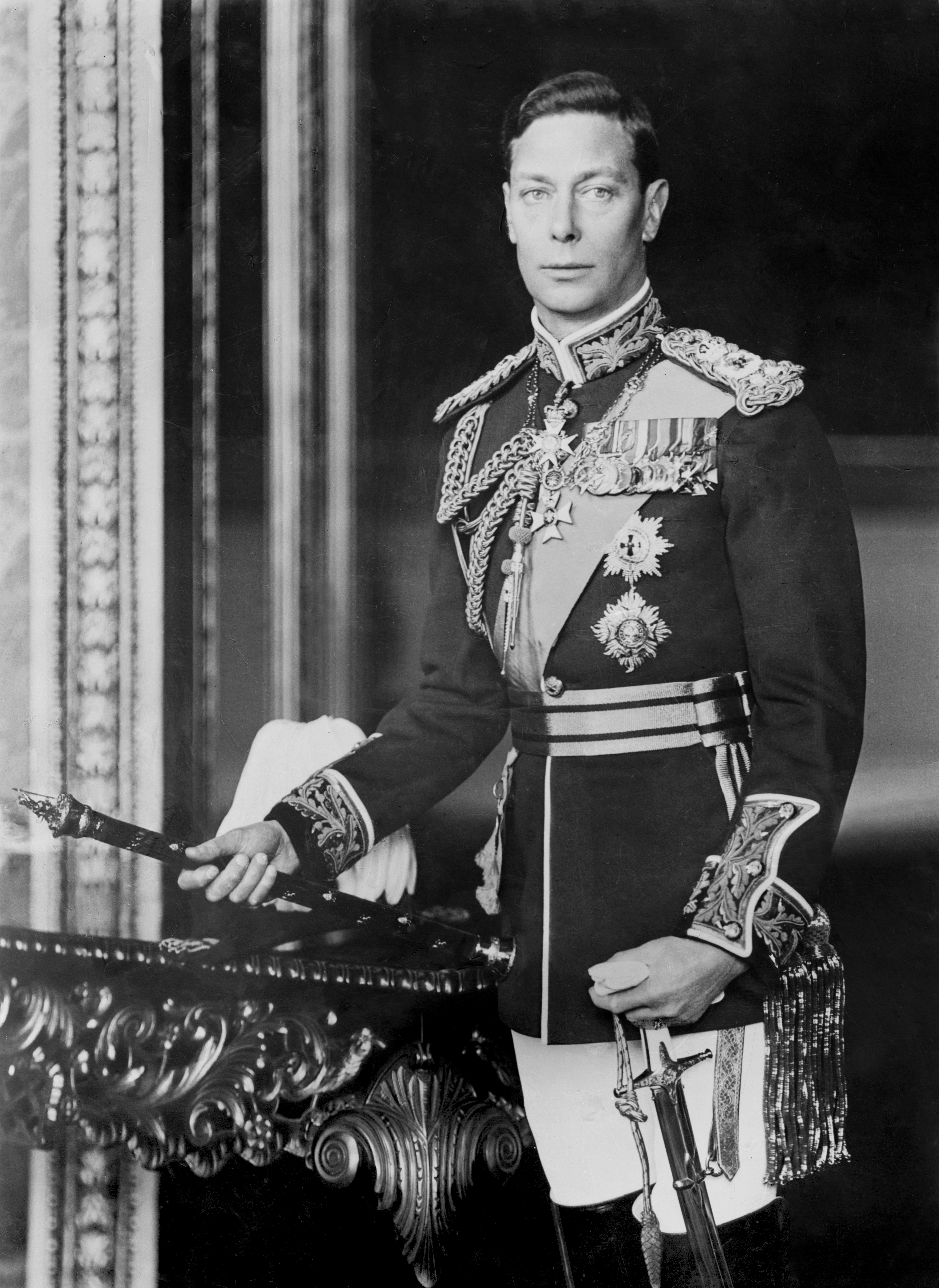 Depicted person: George VI – King of the United Kingdom